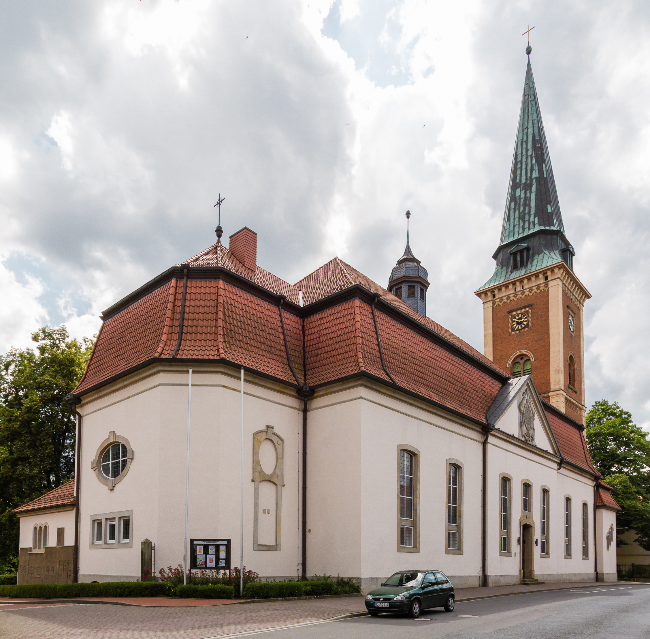 Designation: Evangelisch-lutherische St.-Johannis-Kirche Location: Bahnhofstraße House number: 13 Place: Soltau, Heath district, Lower Saxony Construction time: 1464